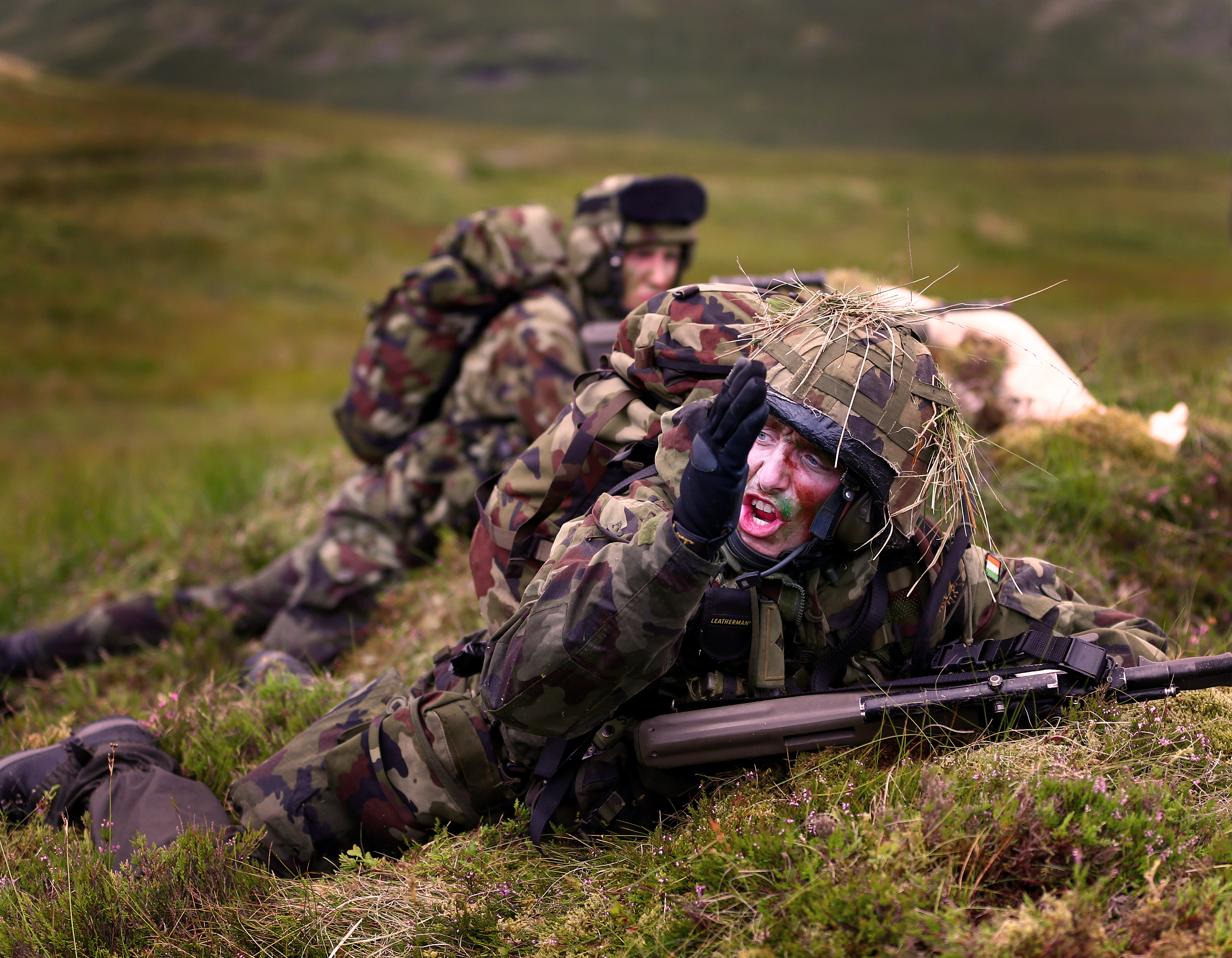 Military Exercise Donegal - Commander calls for support fire